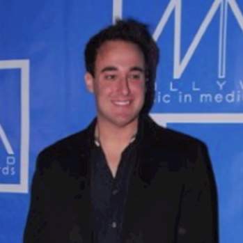 Andrew Balogh appearing at the 2013 Hollywood Music in Media Awards at the Fonda Theater